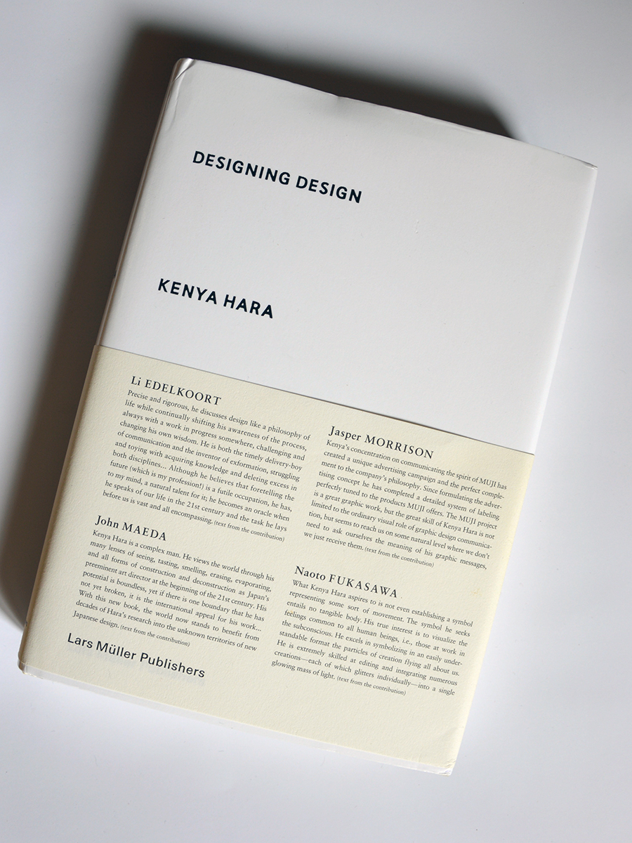 Designing Design, a book written and designed by Kenya Hara